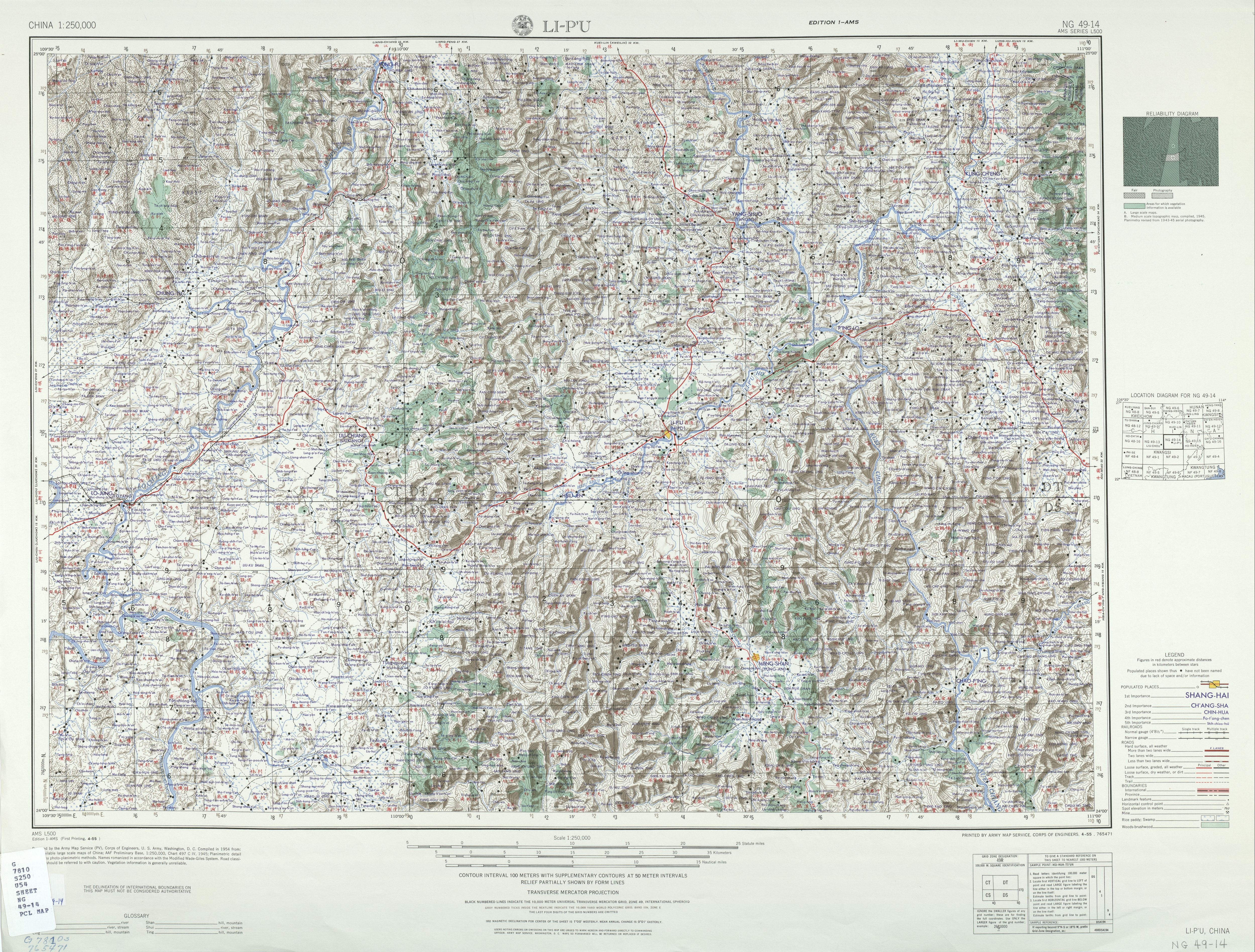 China AMS Topographic Maps